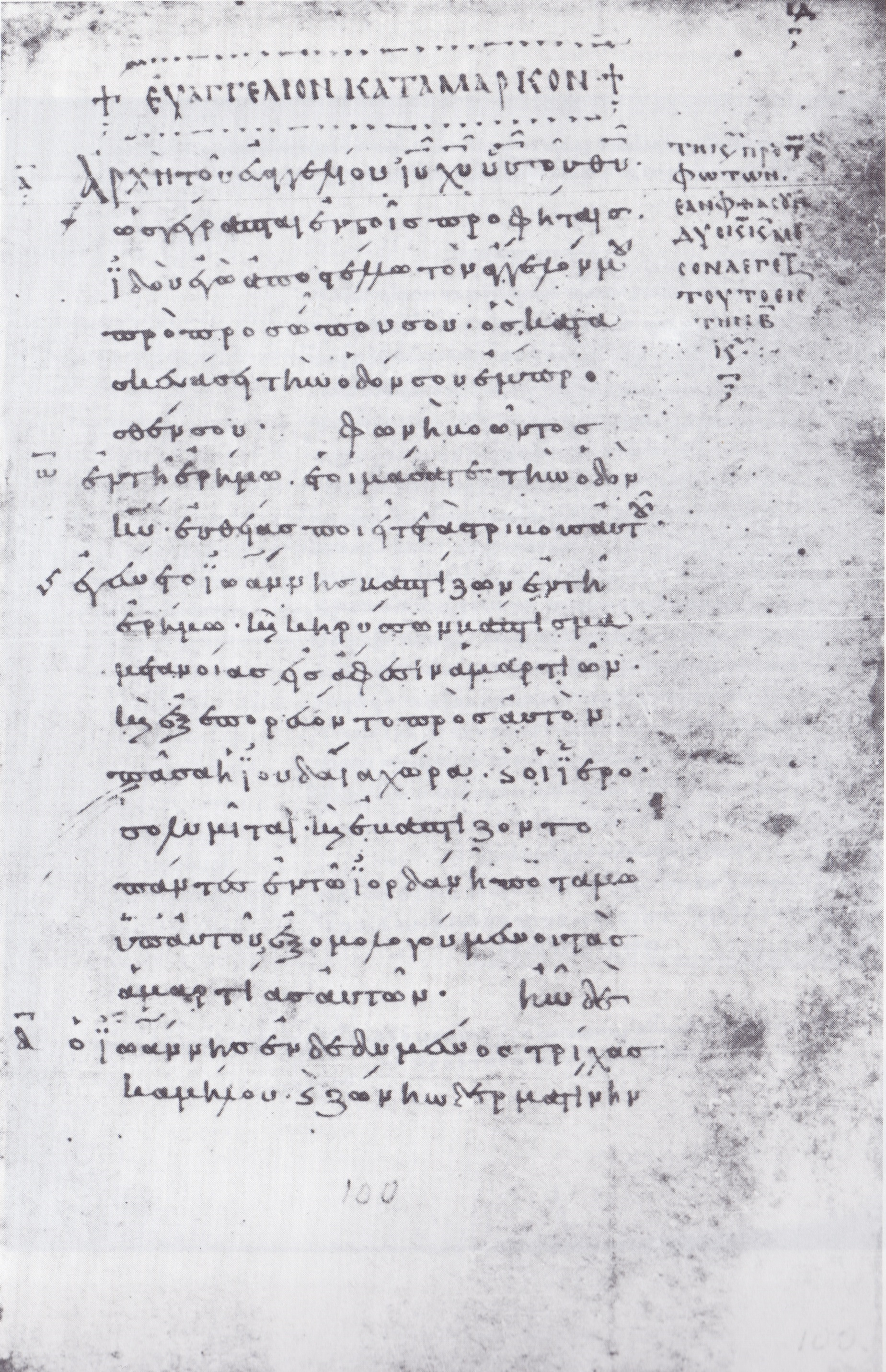 the beginning of the Gospel of Mark (1:1-6)